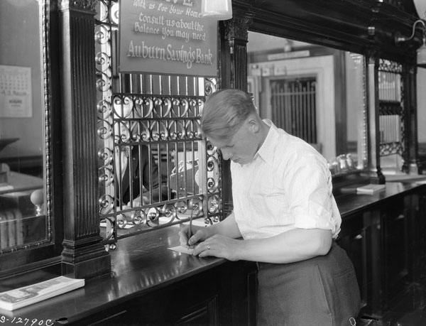 Customer at Auburn Savings Bank By George W. Ackerman, Auburn, Maine, 1929 National Archives and Records Administration, Records of the Extension Service (33-SC-12790c)[VENDOR # 60]